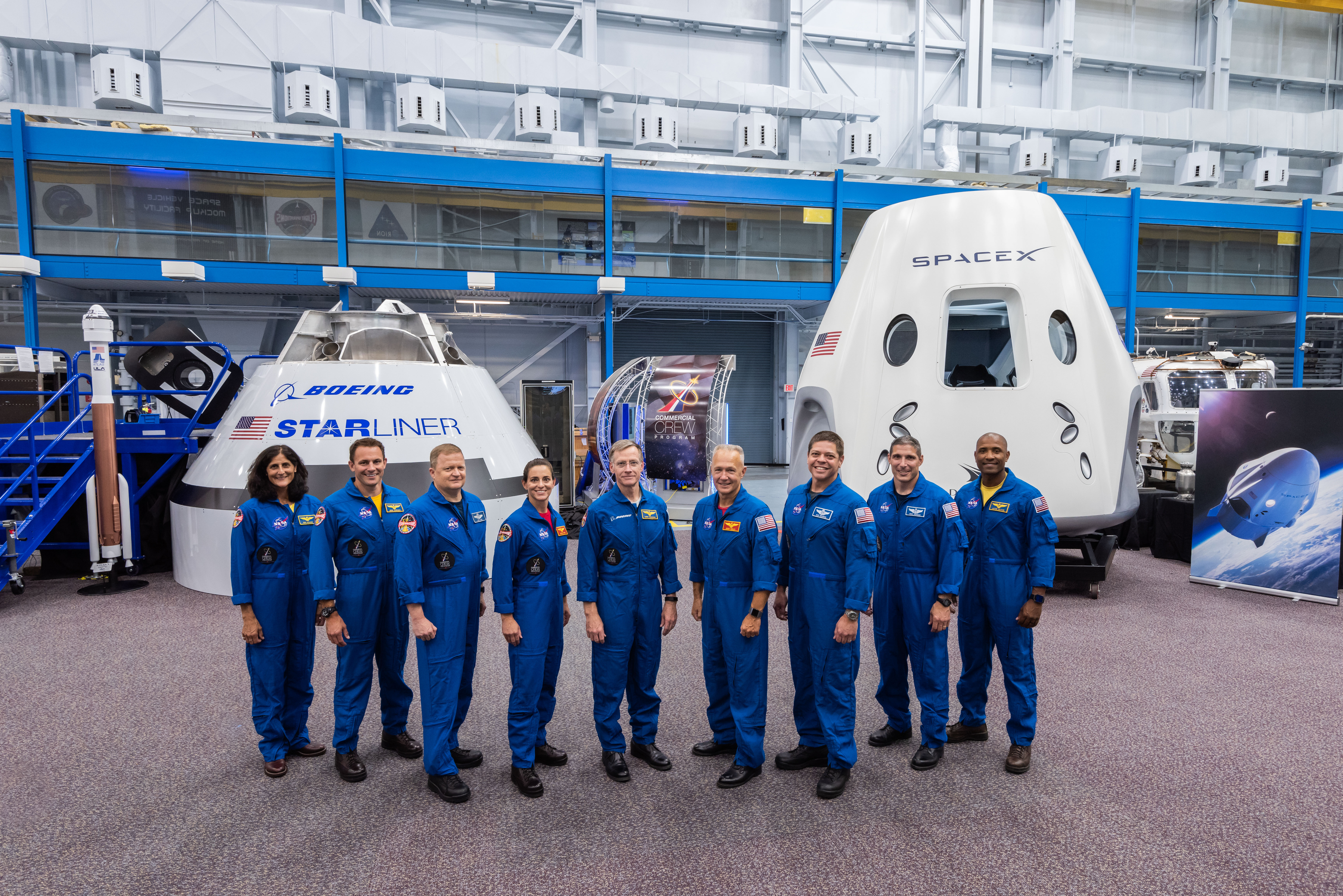 The first U.S. astronauts who will fly on American-made, commercial spacecraft to and from the International Space Station, pose for a portrait in front of the Boeing CST-100 Starliner and SpaceX Dragon Commercial Crew vehicle mock ups at NASA's Johnson Space Center in Houston, Texas. The astronauts are, from left to right: Suni Williams, Josh Cassada, Eric Boe, Nicole Aunapu Mann, Chris Ferguson, Doug Hurley, Bob Behnken, Mike Hopkins and Victor Glover.